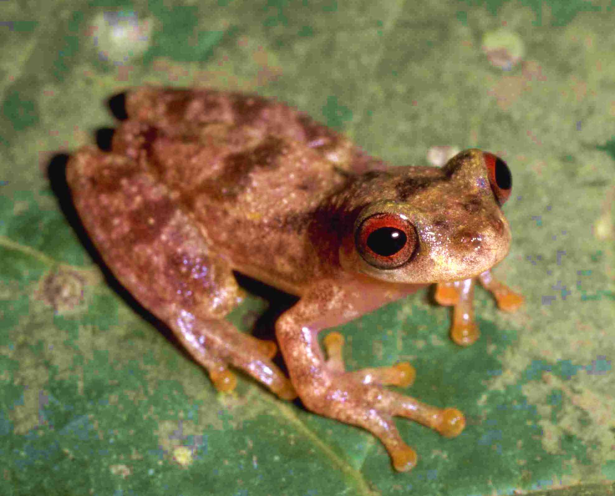 Photo of Dendropsophus joannae, a species endemic to Bolivia